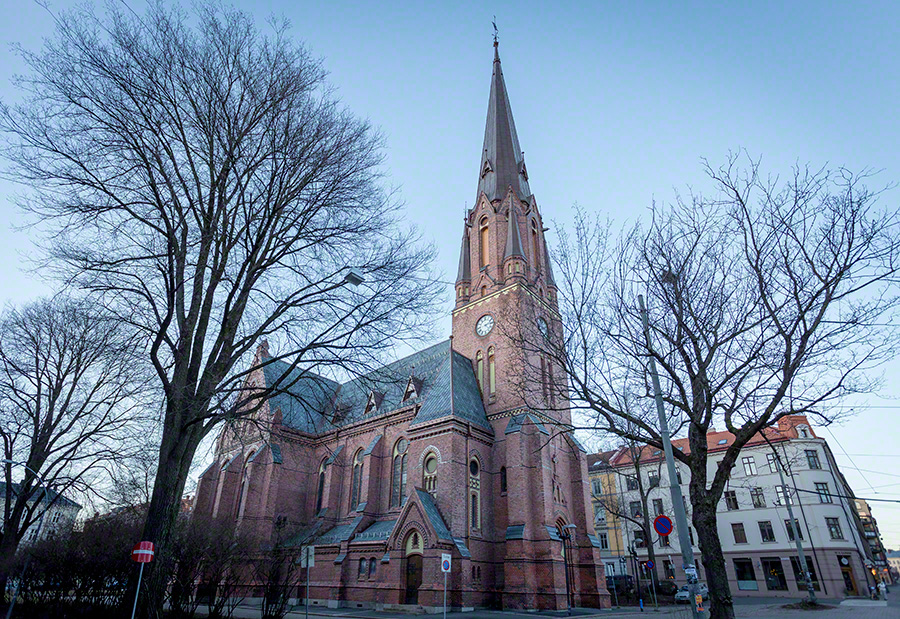 Paulus kirke, which was consecrated in 1892, is located in Grünerløkka in Oslo, Norway, just opposite the Birkelunden Park.